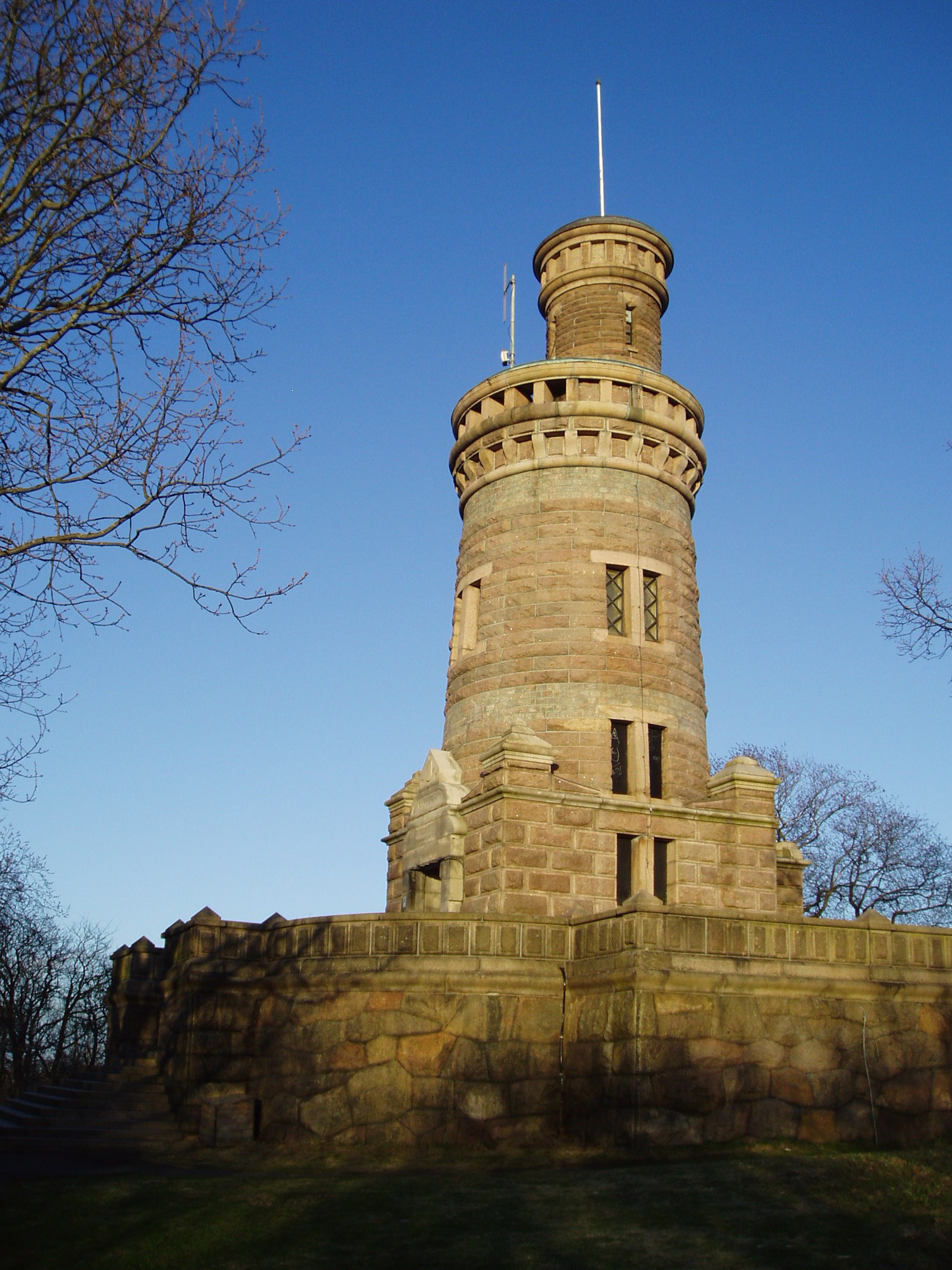 Observation tower, former water tower, Slottsskogen, Gothenburg, Sweden. Adrian Crispin Peterson, 1899